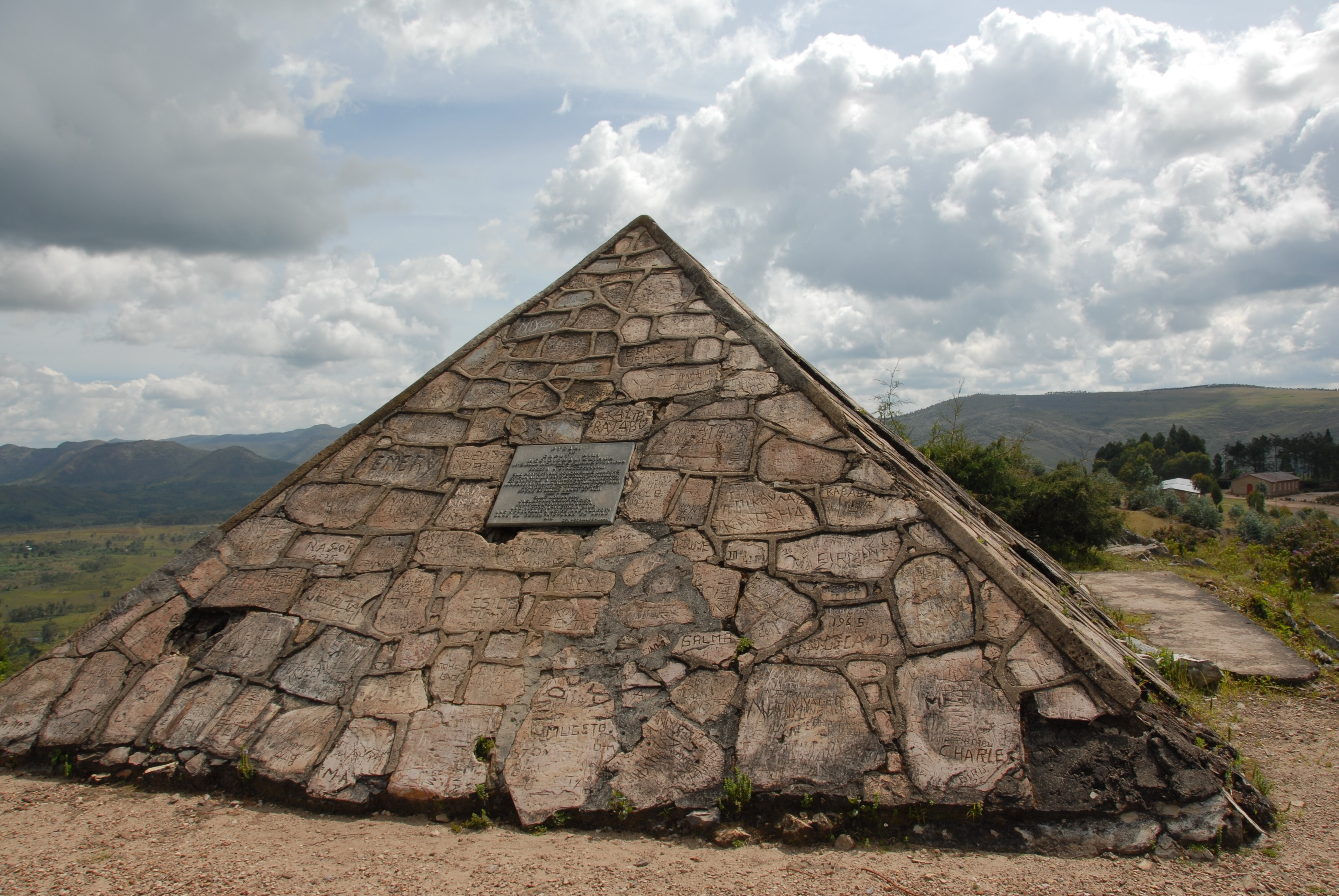 The source of the Nile, or so the locals say